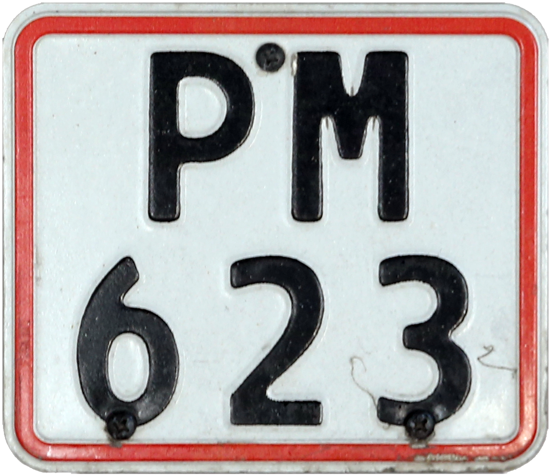 A heavy moped license plate on a 2010 Piaggio LX in Denmark.